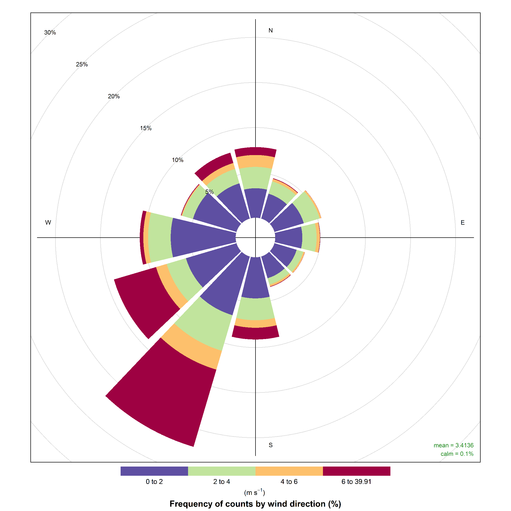 Windrose produced in R (using openair plugin) with data from the Dr. Neil Trivett Global Atmosphere Watch Observatory's anemometer data, 1987-2015.